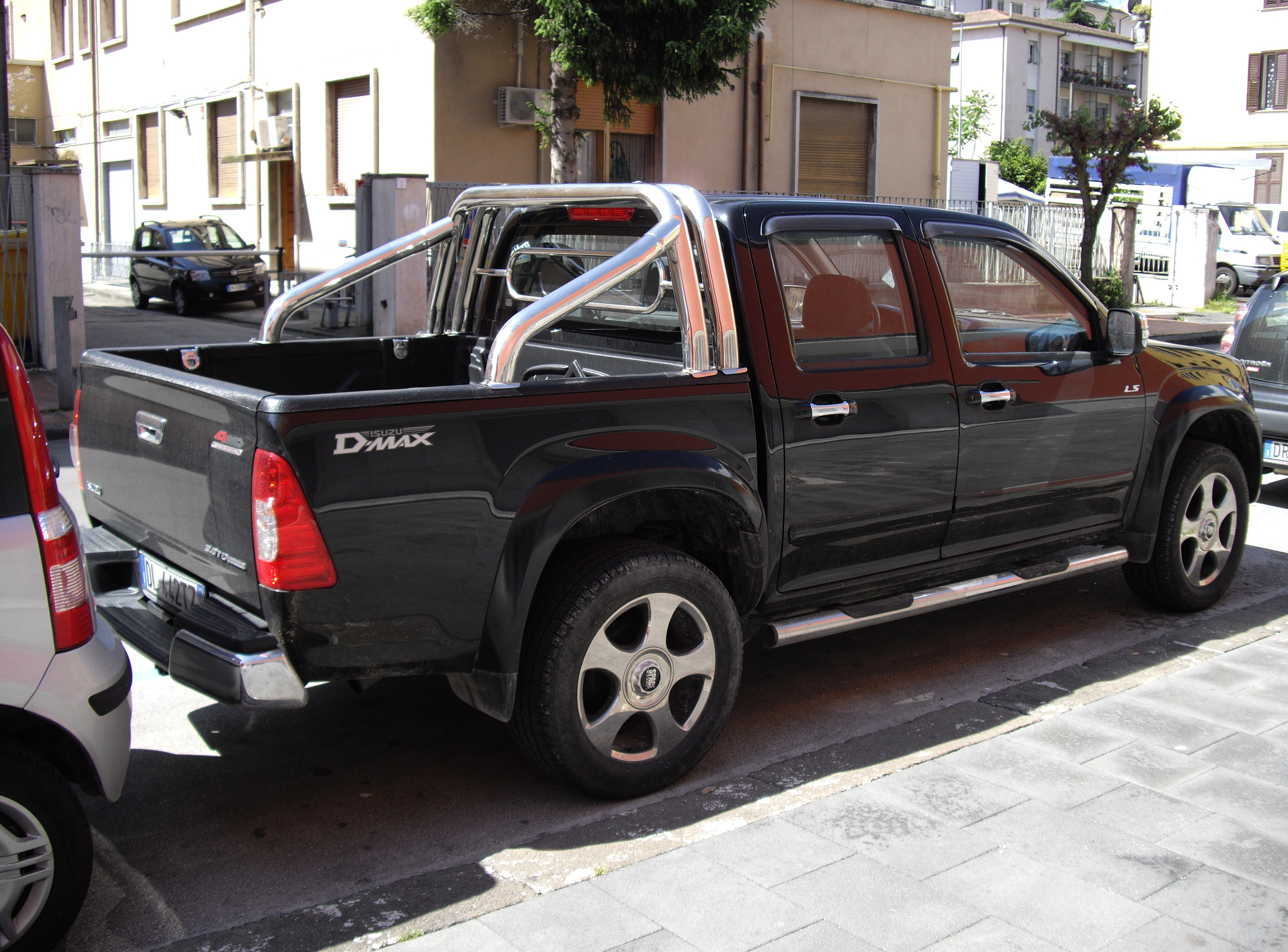 Isuzu D-Max